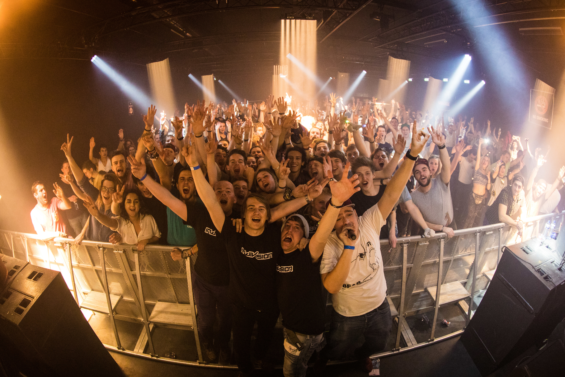 Indivision crew